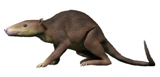 Life reconstruction of Zalambdalestes lechei